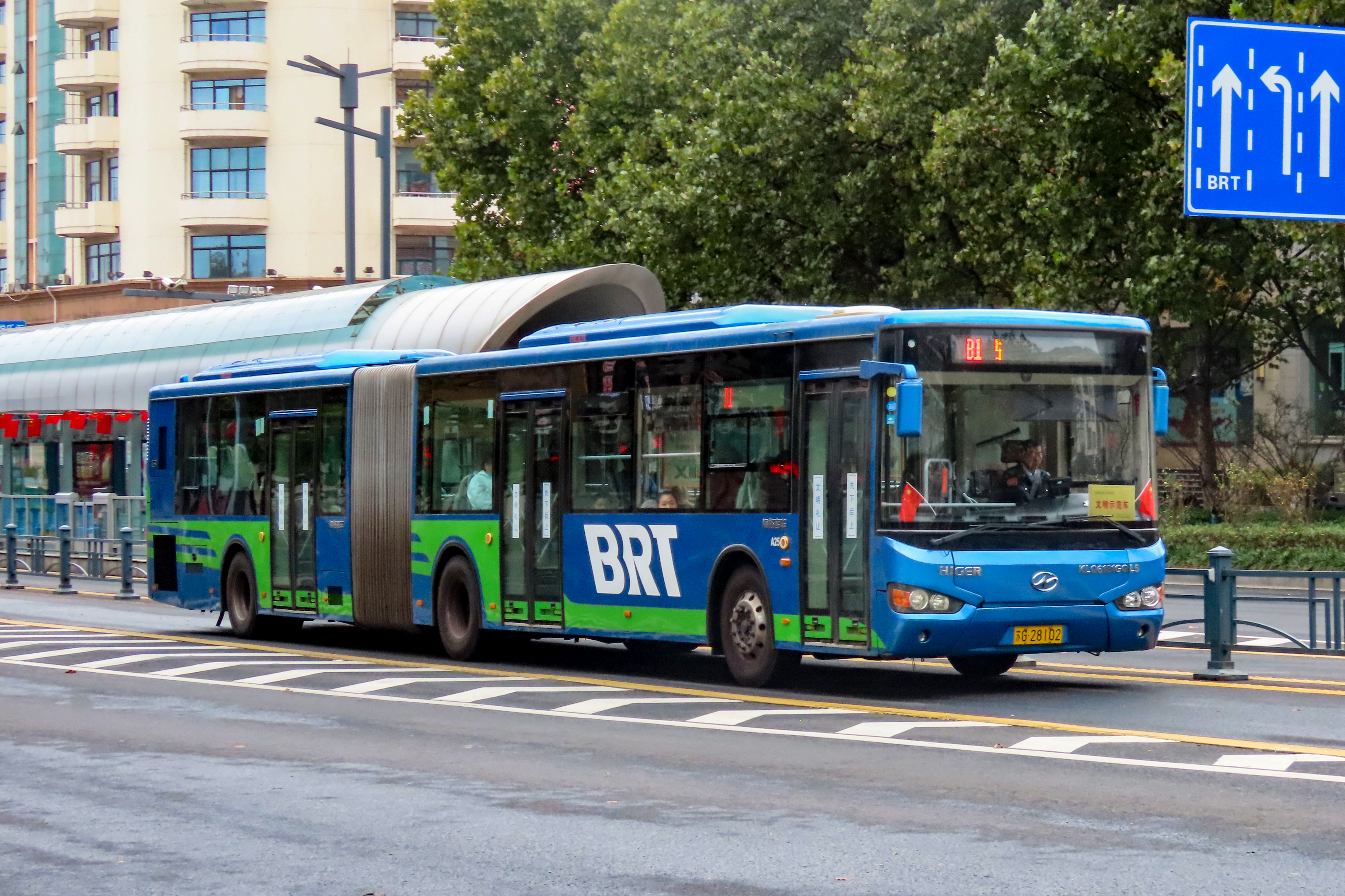 The main force of Lianyungang BRT is KLQ6181GQL5.